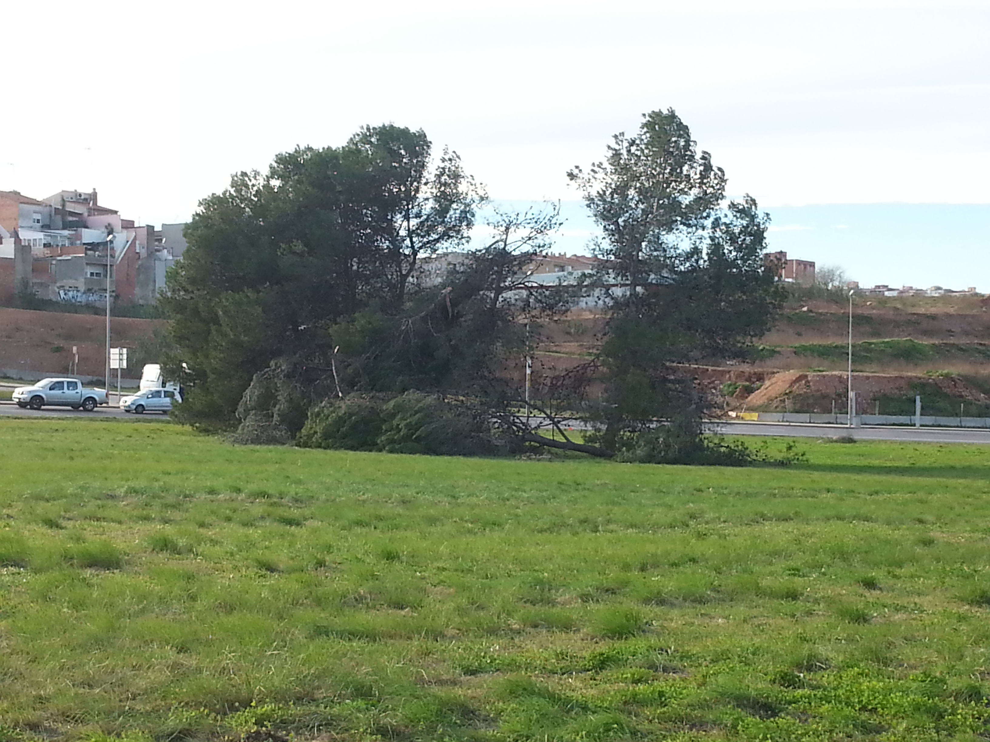 Wind storm Catalunya 2014